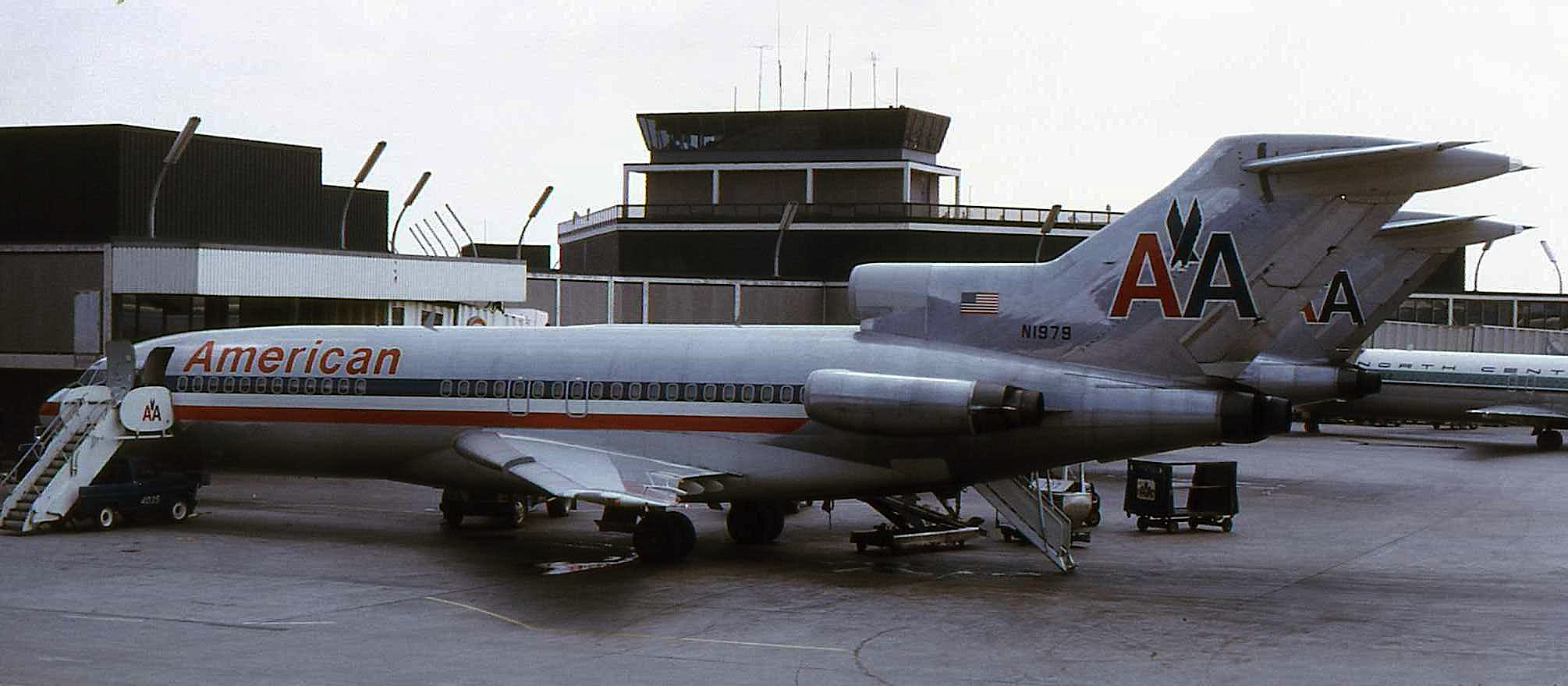 United States, Chicago, O'Hare International Airport. American Airlines Boeing 727-23, N1979, c/n 18435/51, first flight on June 3, 1964, delivered to American Airlines on June 29, 1964. Was then converted to 727-23(F) for Pacific International Airlines registered HP-1299PFC. Sold to Angola Air Charter as D2-FCJ. Sold to Palau Marine Industries C. as N518PM. Sold to World Airways and registered N9179 also with Frontier Horizon, Flying Tigers, Spirit of America Arlines and Amerijet International. Lastly to Federal Express as N518FE. Was scrapped in 2003.